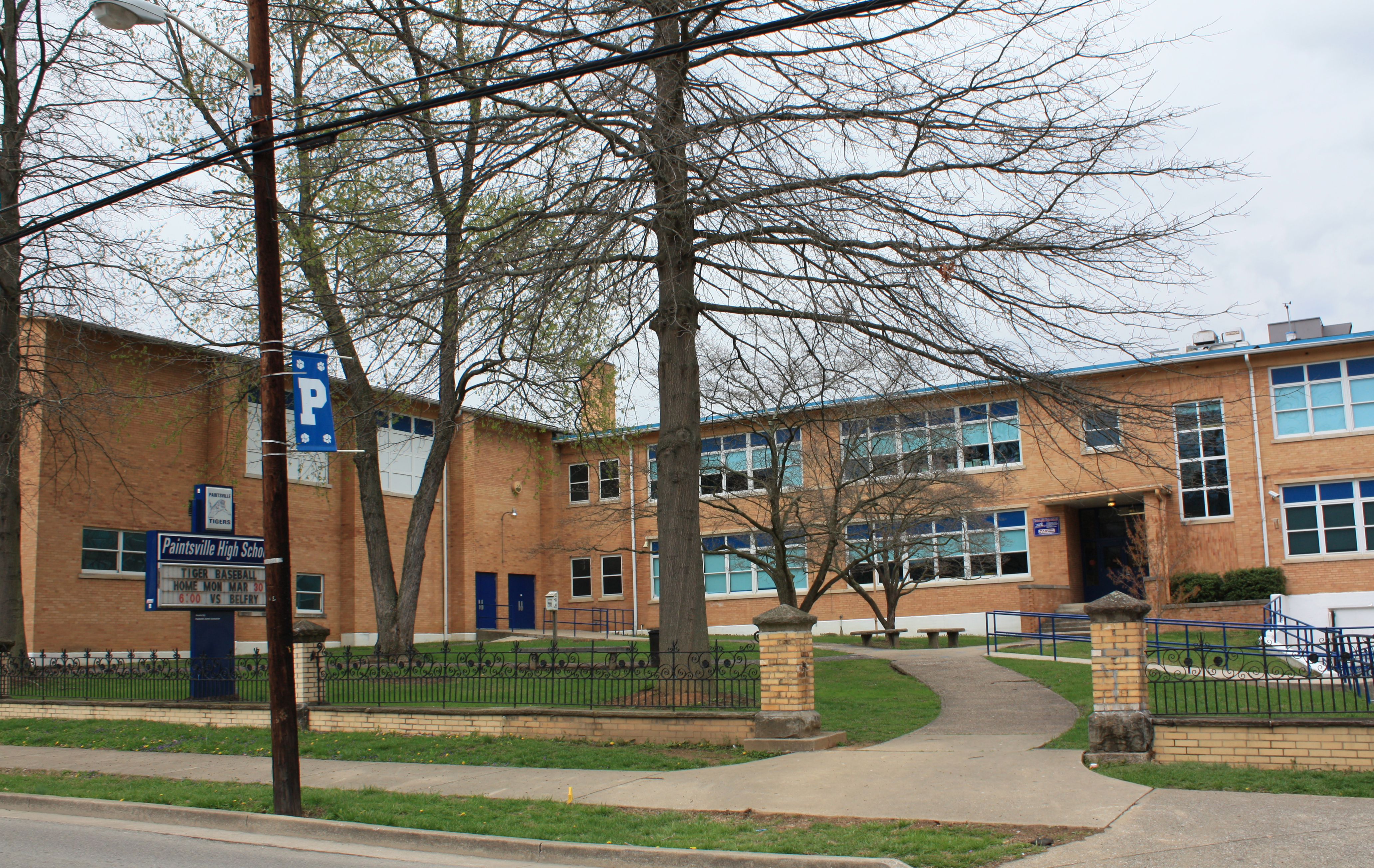 Photograph taken of Paintsville High School from Second Street